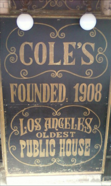 A sign for Cole's Pacific Electric Buffet, in front with claim to being the oldest bar in Los Angeles